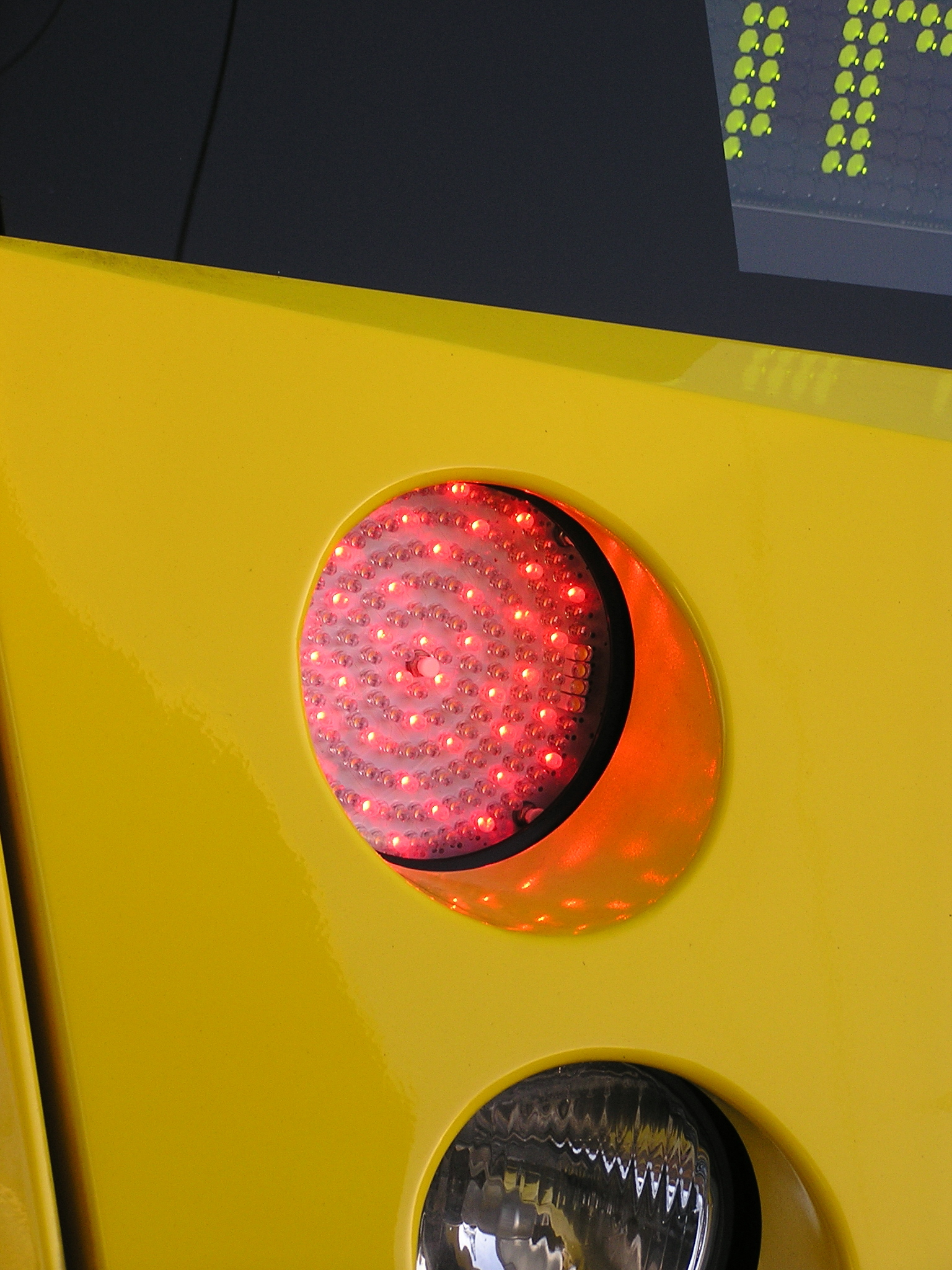 Light-emitting diodes as front- and rearlight of a LINT of the Taunusbahn